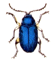 Aphthona nonstriata, from Calwer's Käferbuch, Table 43, Picture 18. Taxonomy was updated to 2008, using mostly the sites Fauna Europaea and BioLib. Please contact Sarefo if the determination is wrong!